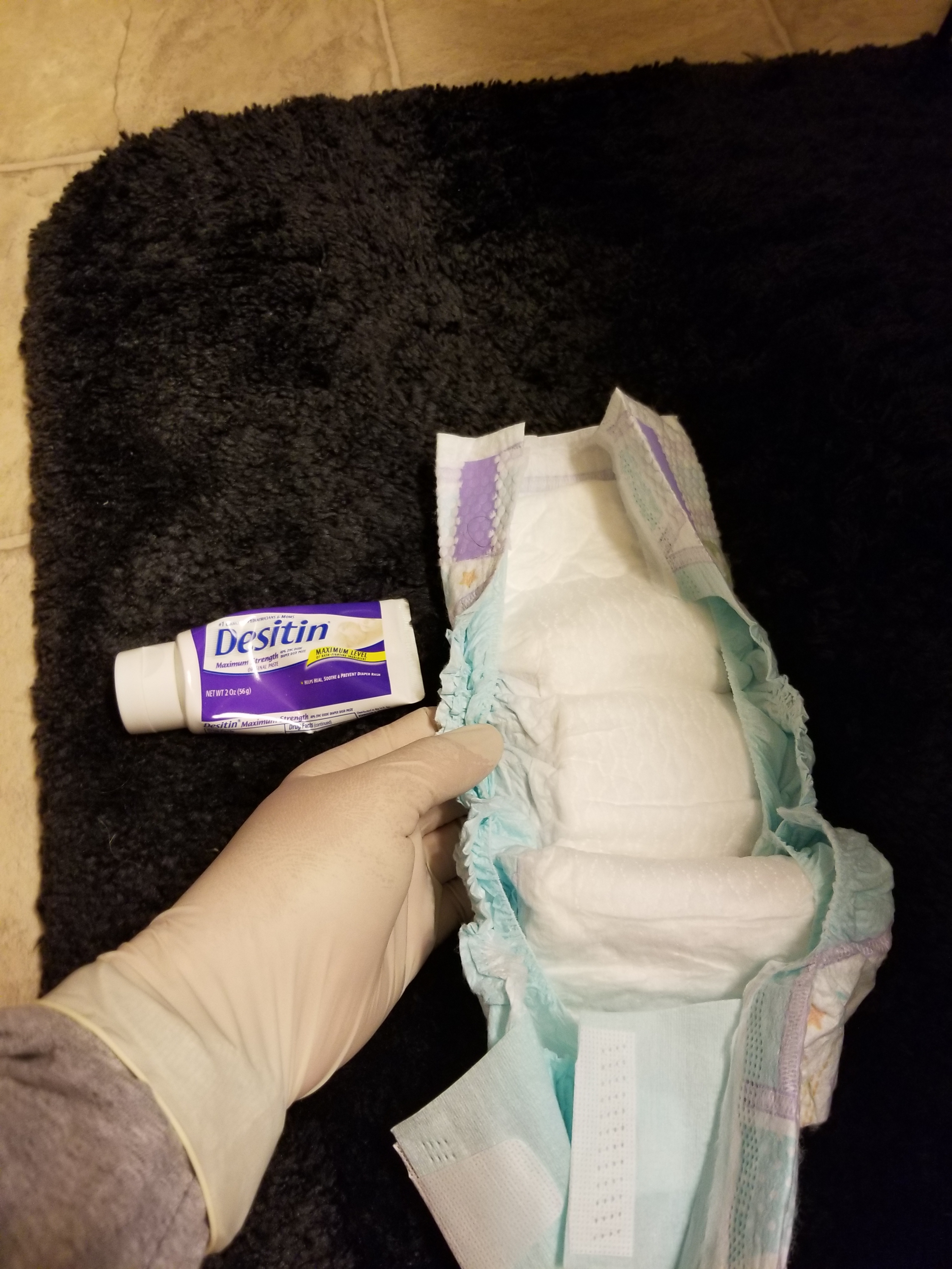 Childcare worker preparing to change soiled infant diaper while wearing disposable latex gloves.